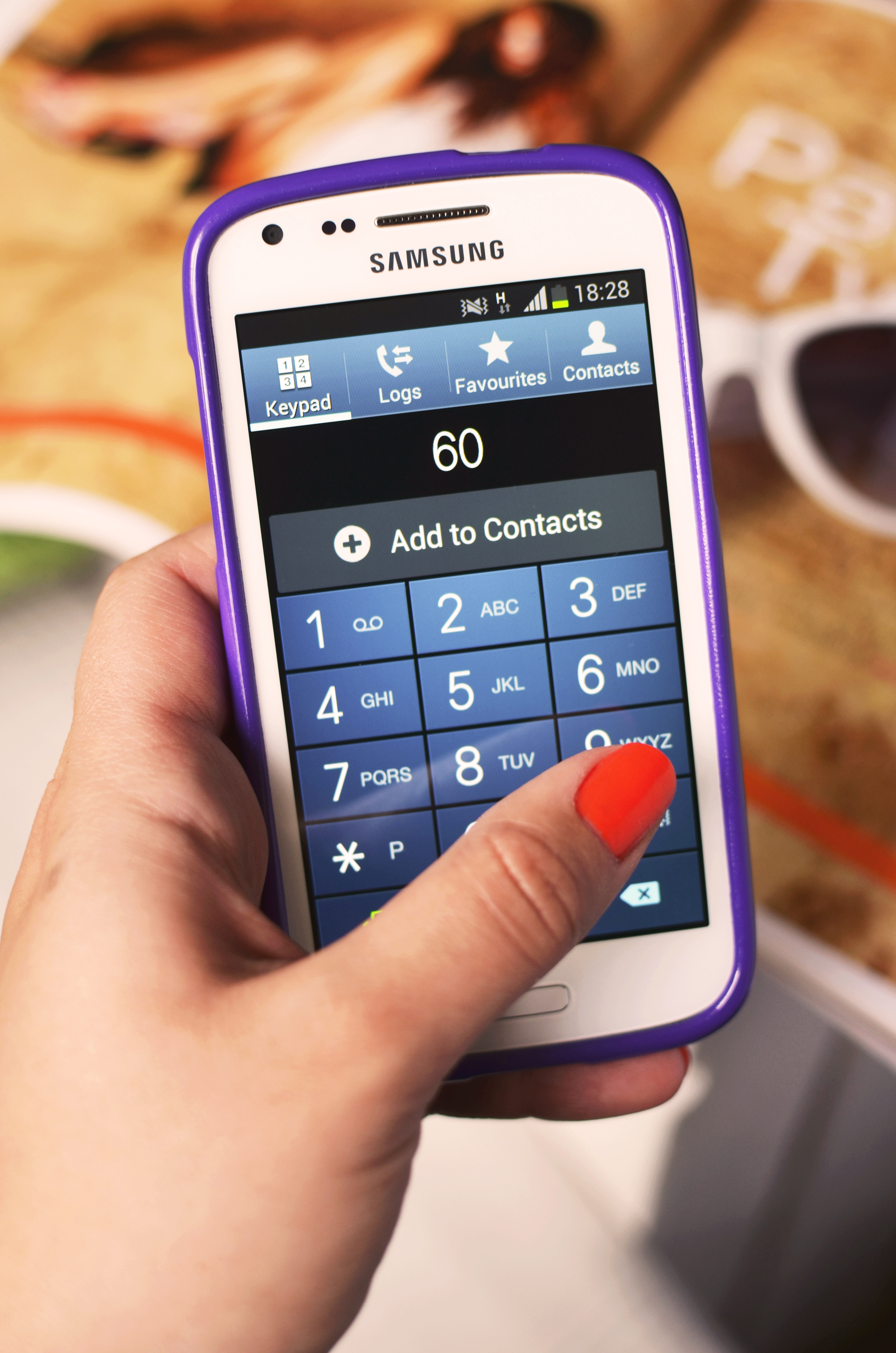 this is an image of a smartphone in contacts.